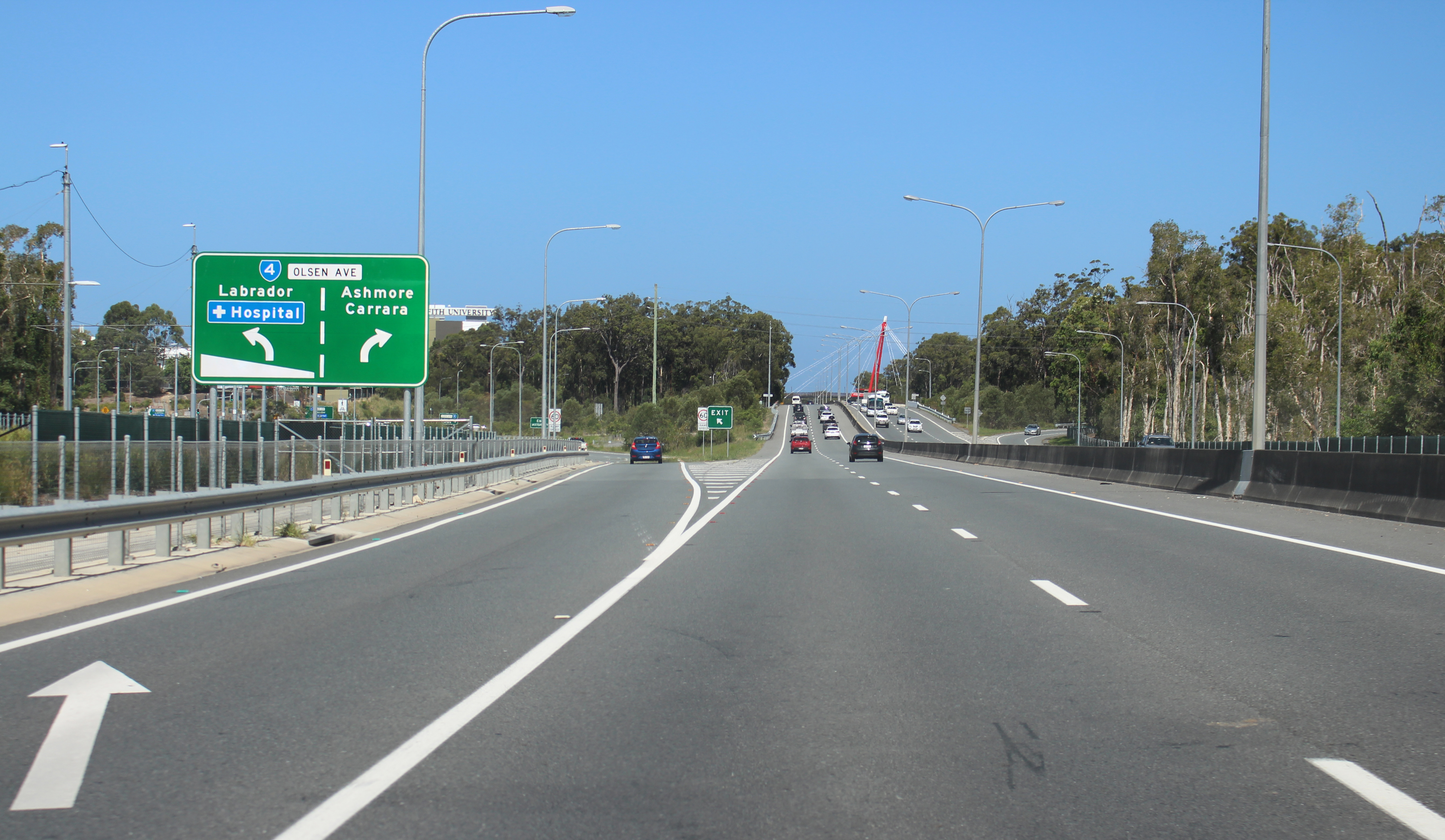 The Smith Street Motorway (State Route 10) eastbound at the exit with Olsen Avenue in Gold Coast, Queensland. Photographed by user Coolcaesar on December 29, 2018.